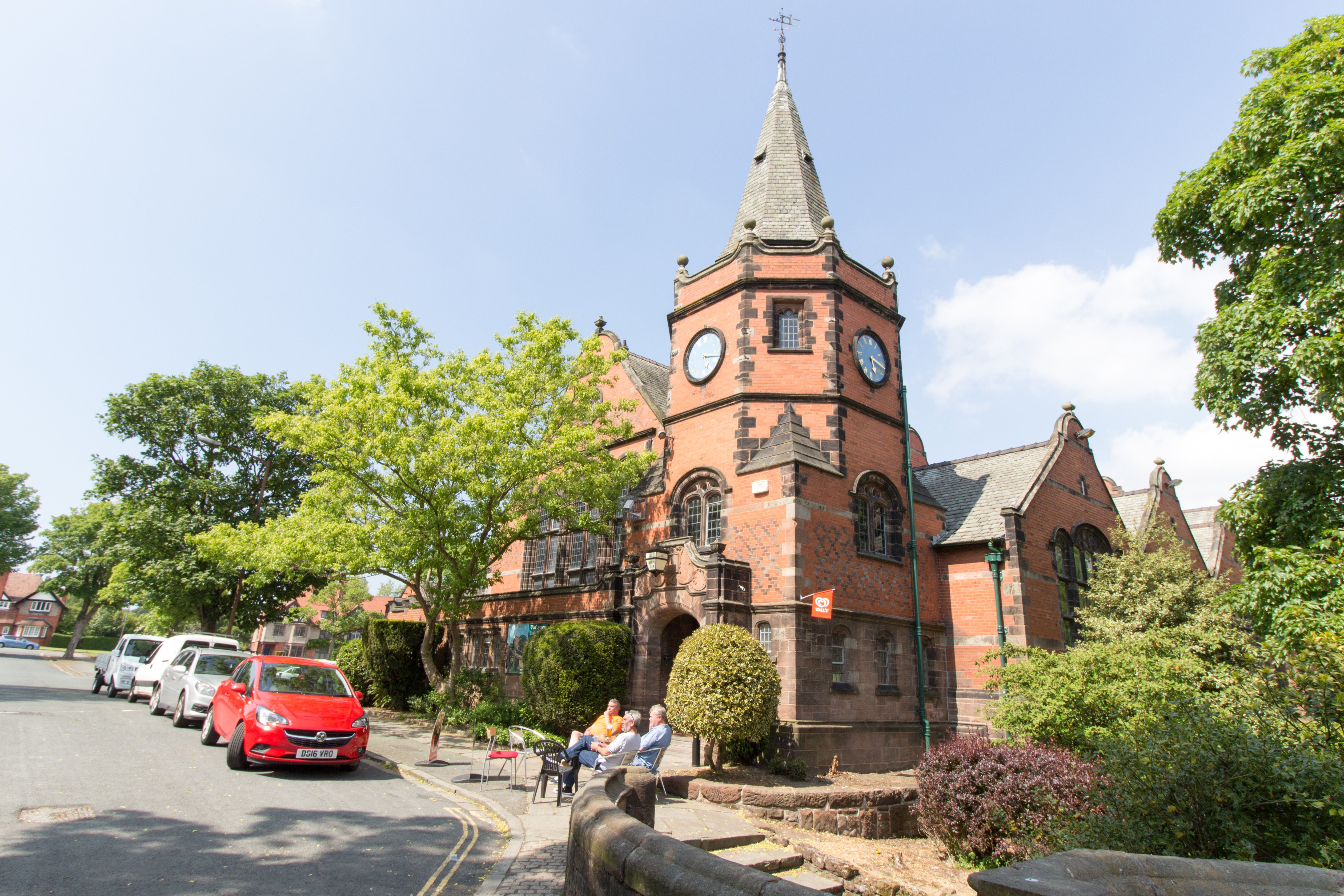 The Lyceum in Port Sunlight